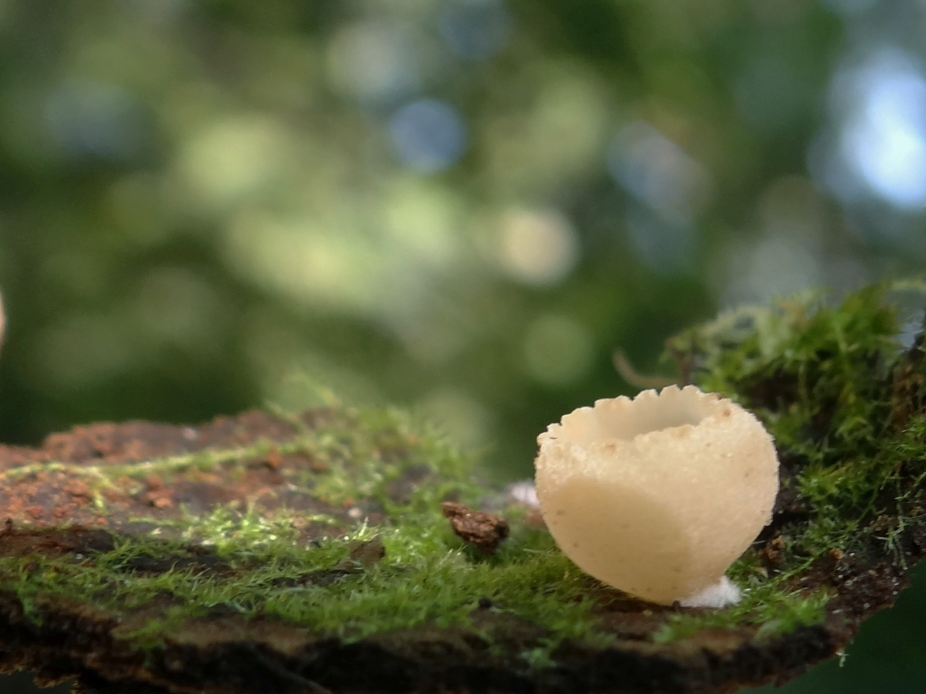 Tarzetta cupularis (location: Poland, Gorce, Rdzawka)